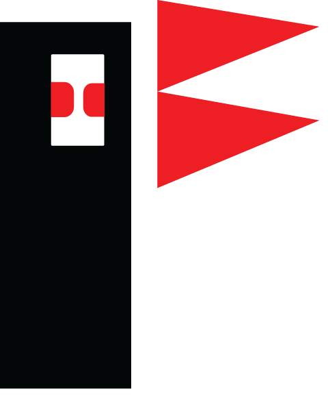 Based on David Nicolle "Armies of the Muslim Conquest" illustrations by Angus McBride. And Martin Hinds "The Banners and Battle Cries of the Arabs at Siffin" Al-Abhath XXIV